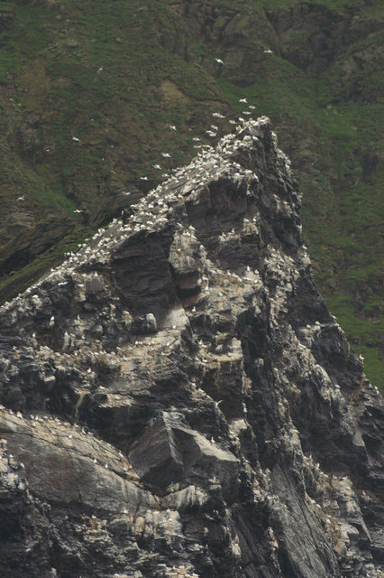 Humla Stack Gannets hang over the top of the stack, photographed from the sea.